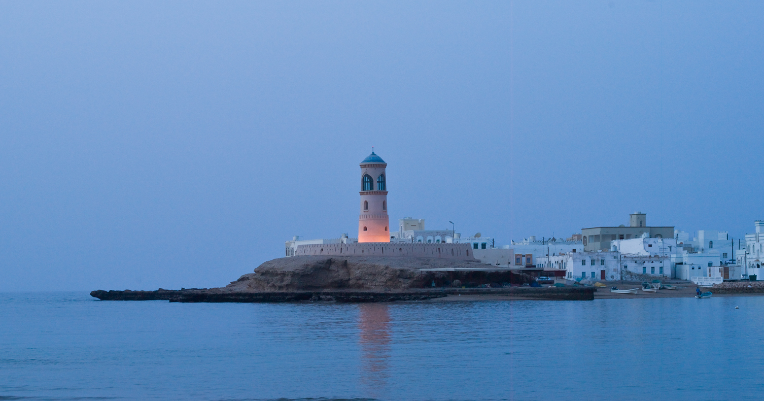 The lighthouse in Al Ayjah part of Sur, Oman.